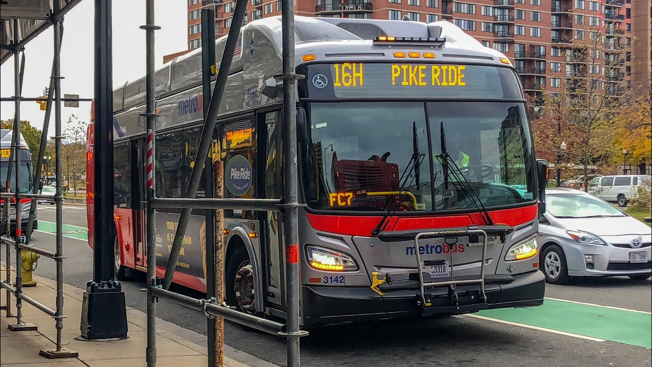 WMATA New Flyer XN40 3142 on Route 16H